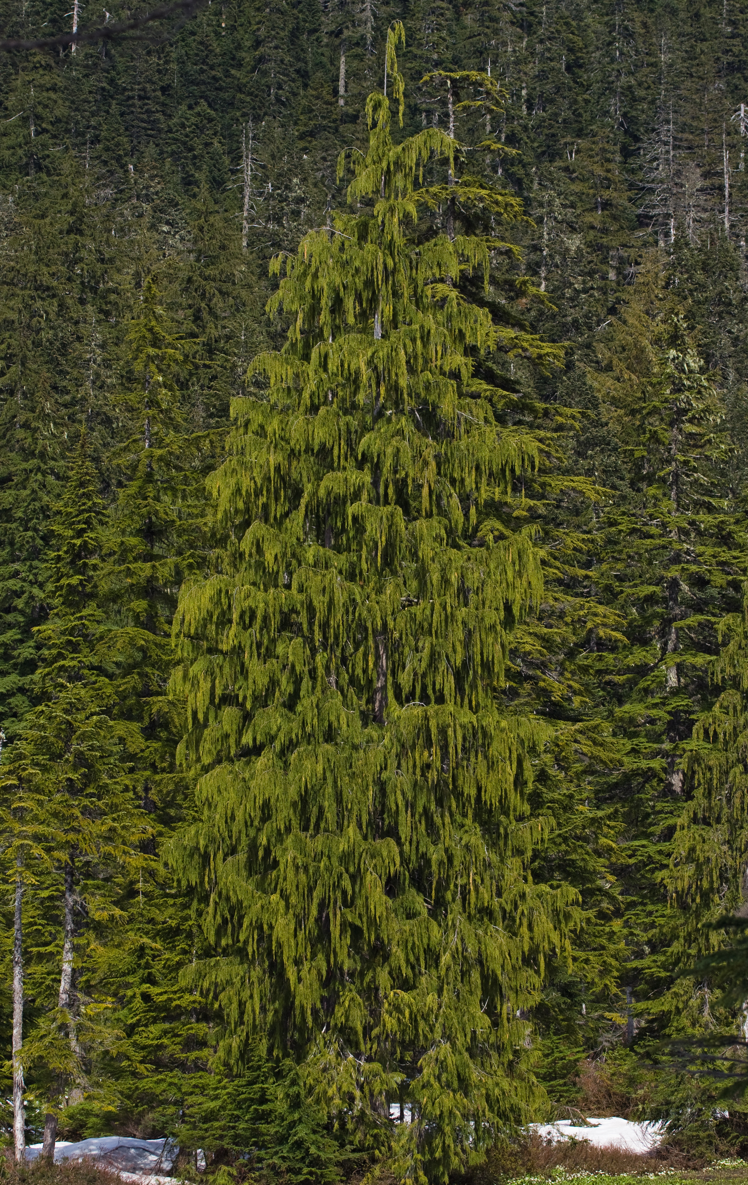 Nootka Cypress, Yellow Cypress, Alaska Cypress syn. Callitropsis nootkatensis (D. Don) Oerst.